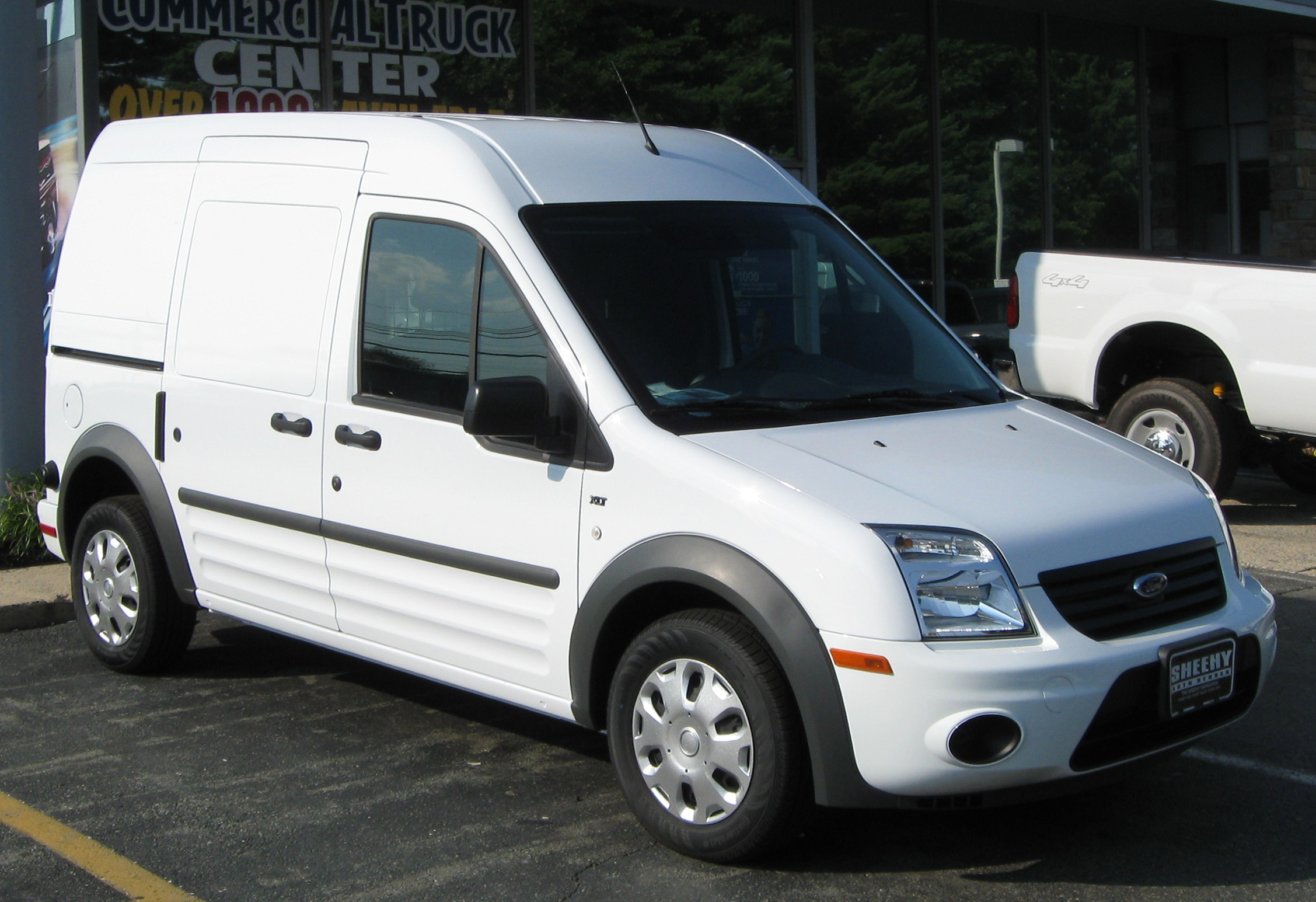 2010 Ford Transit Connect XLT photographed in Gaithersburg, Maryland, USA.